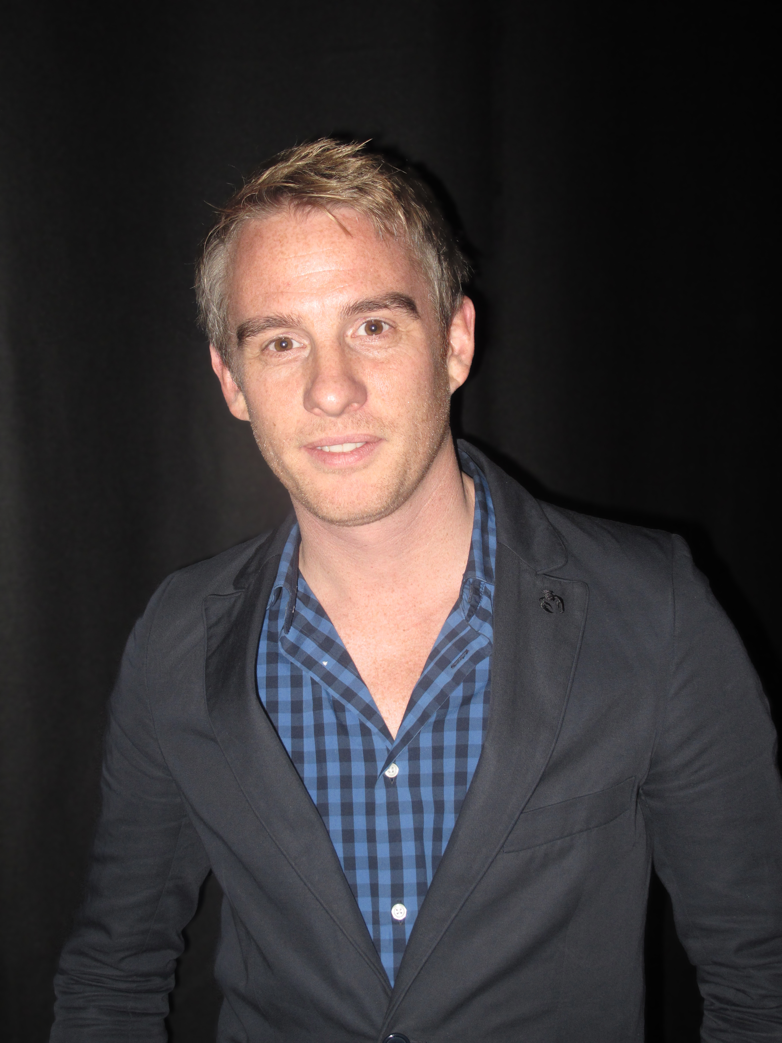 Art Rooijakkers presenting at TEDxAmsterdam 2012